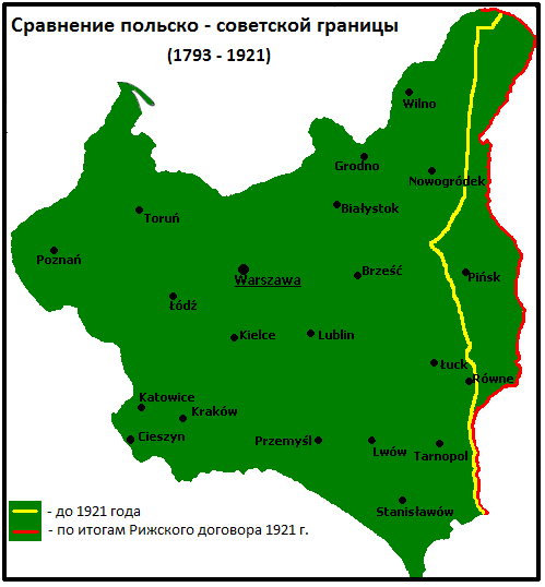 Comparison of Polish eastern borders from the years 1793 (Second Partition) and 1921